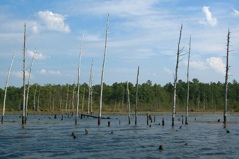 Oswego Lake in the Penn State Forest, part of the New Jersey Pinelands National Reserve, New Jersey, United States